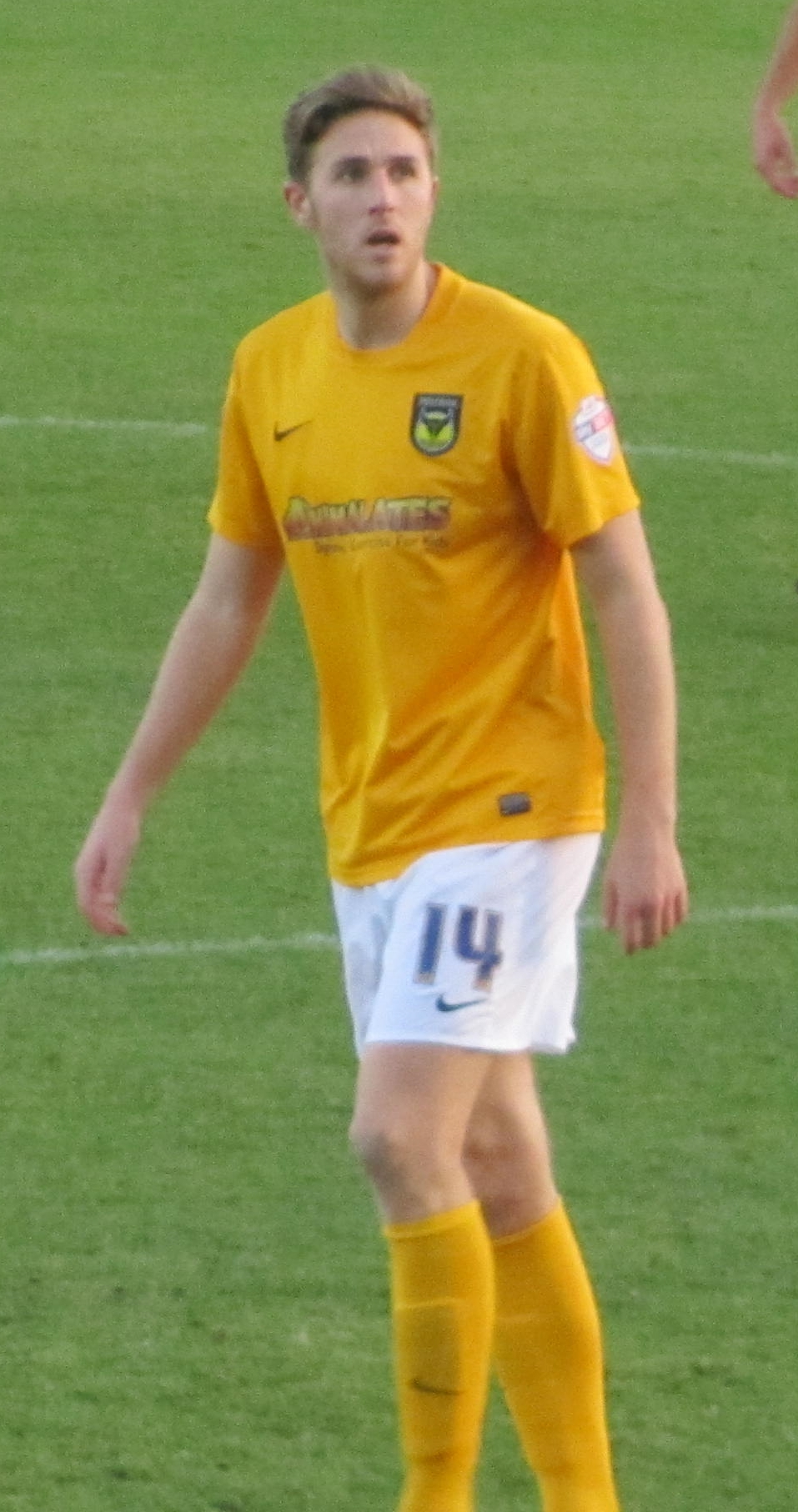 Asa Hall playing for Oxford United against York City at Bootham Crescent, York on 21 December 2013